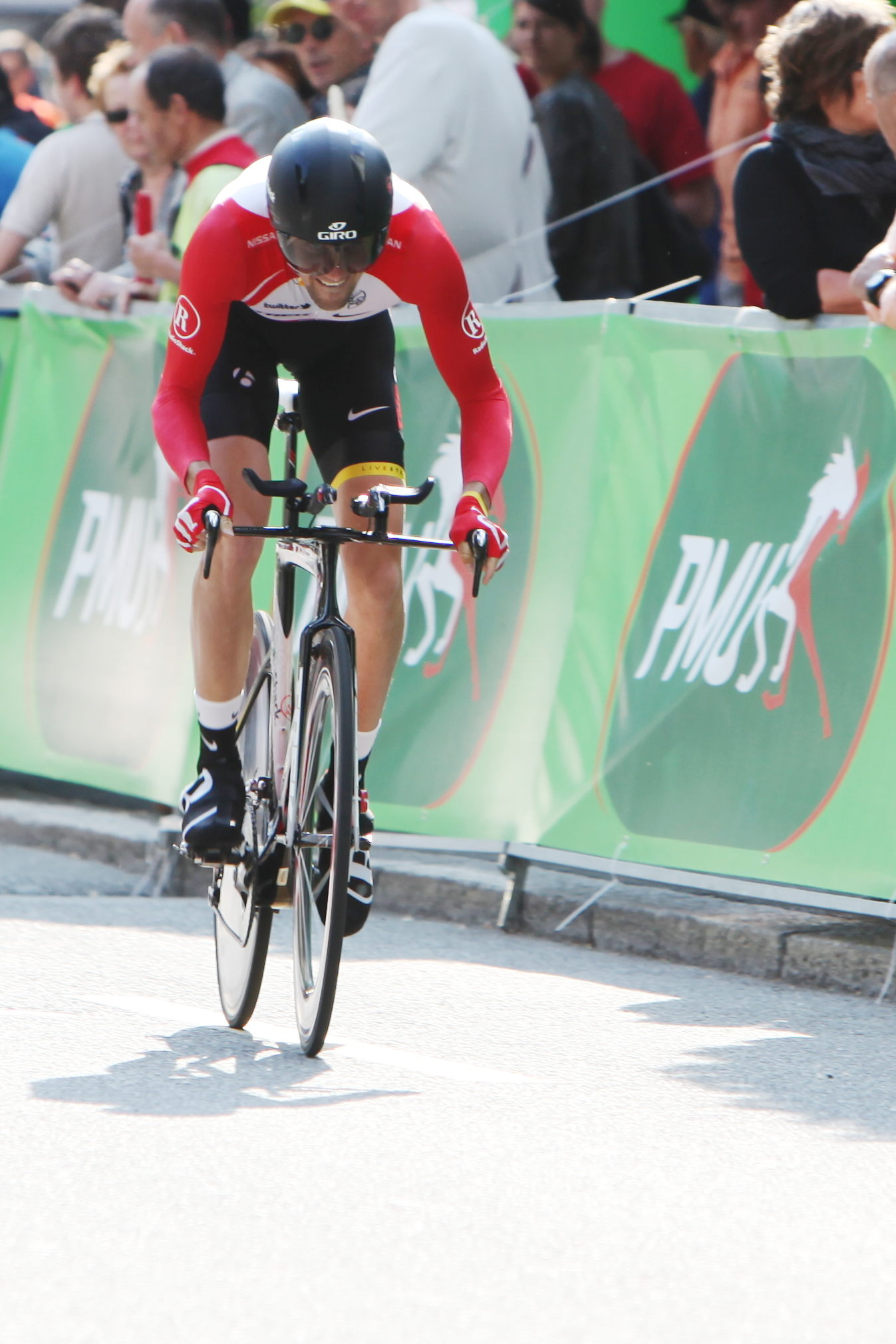 Geoffroy Lequatre at the prologue of the Tour de Romandie 2011